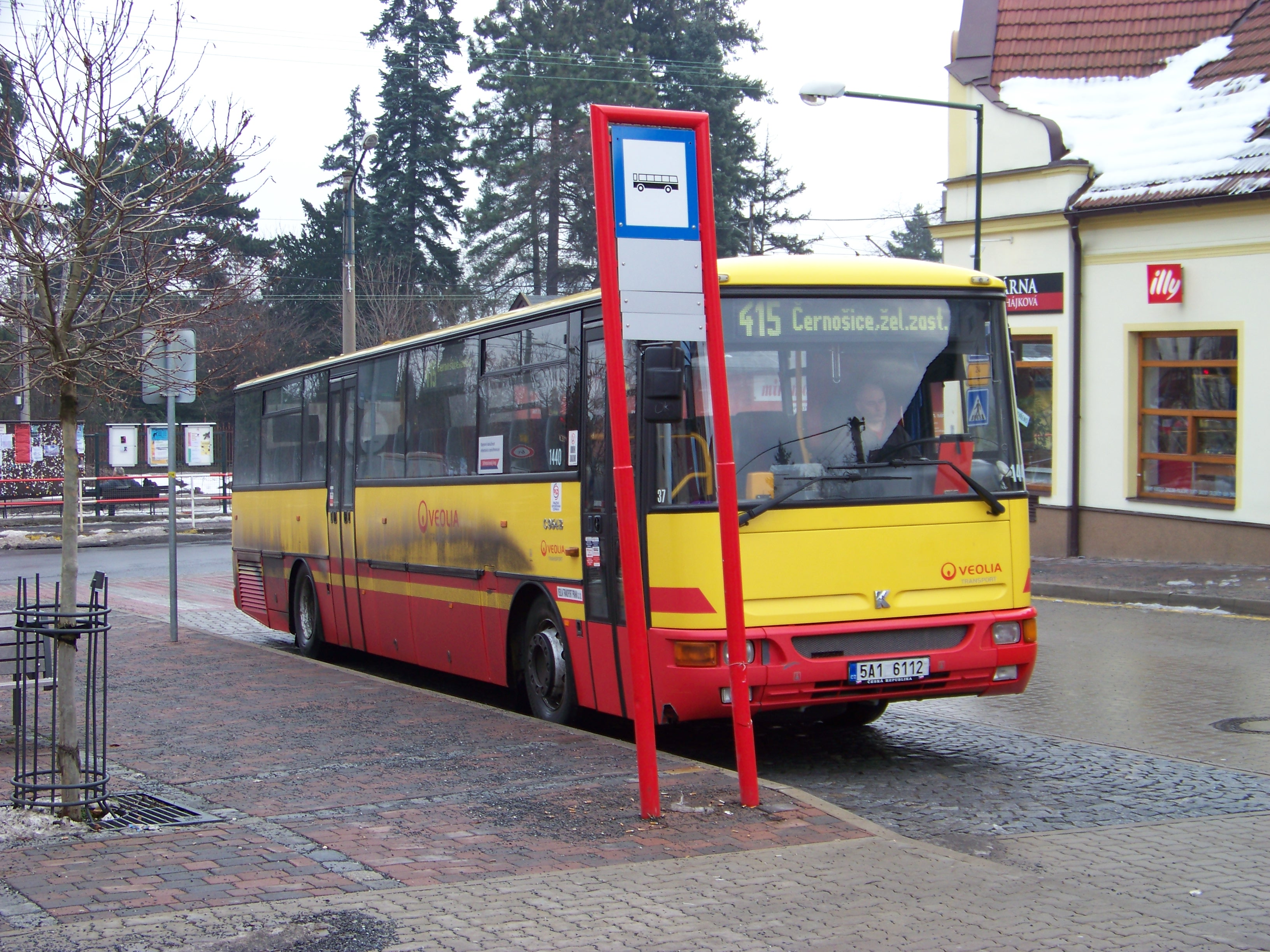 Černošice, Prague-West District, Central Bohemian Region, the Czech Republic. A bus Karosa C 954E.